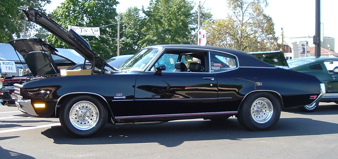 Buick GS Stage II